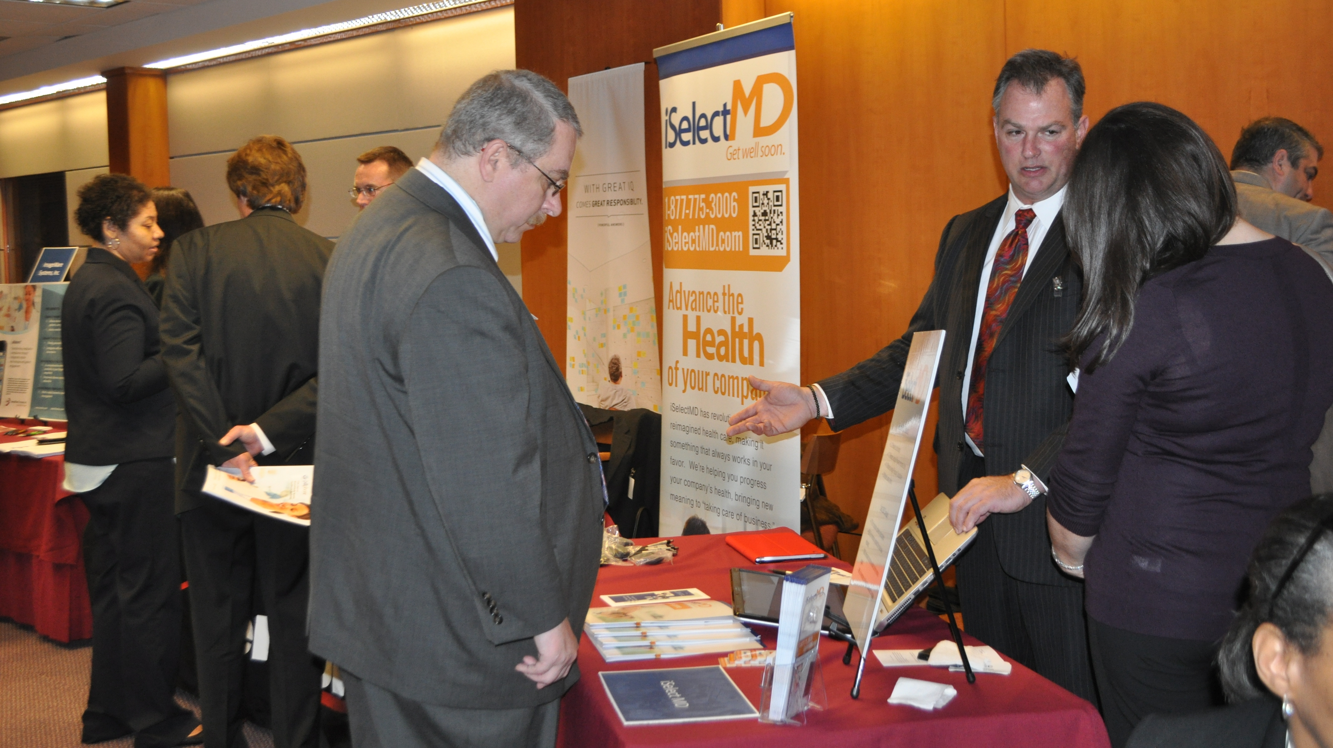 FCC mHealth Innovation Expo.